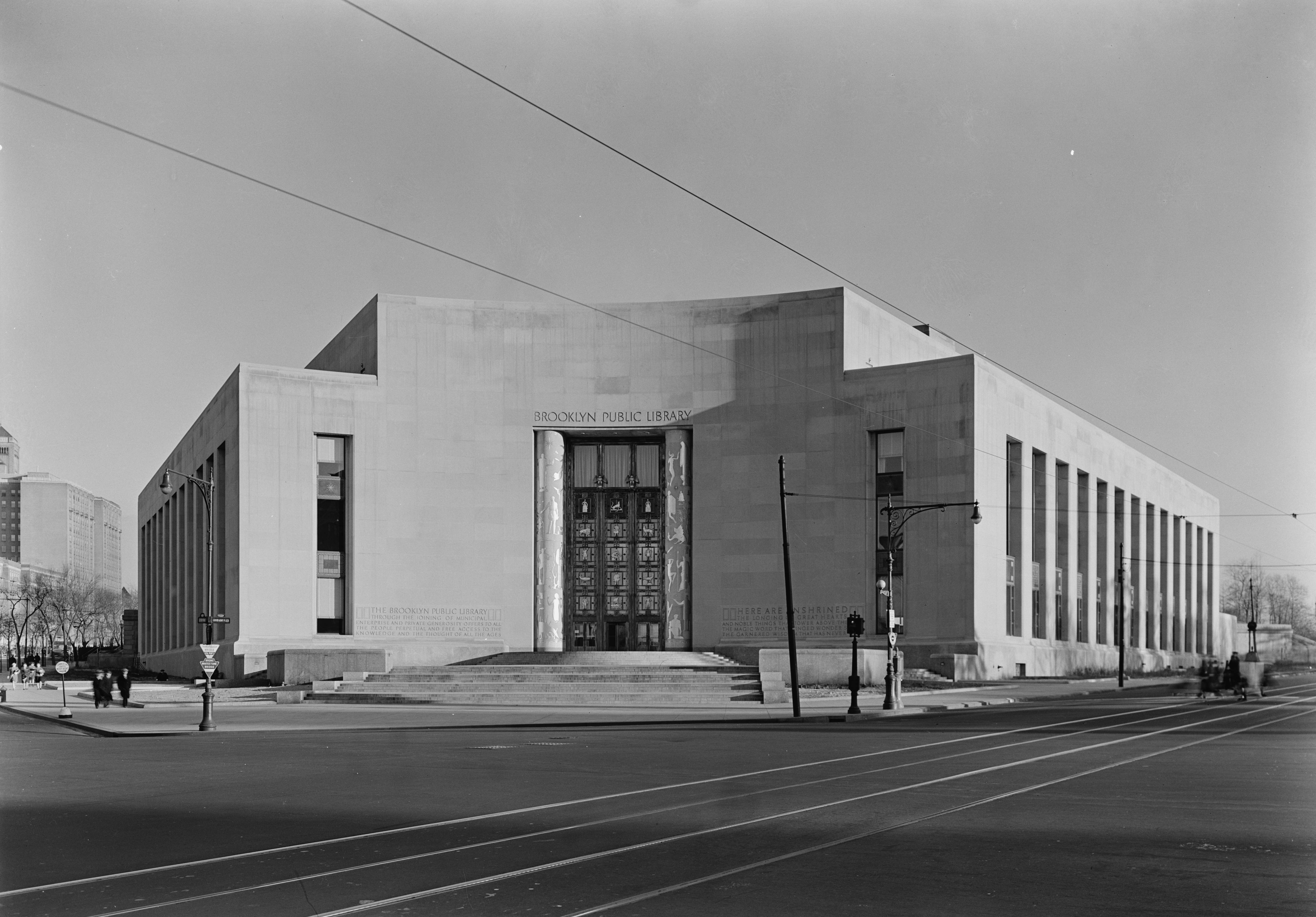 Brooklyn Public Library (Ingersoll Memorial), Prospect Park Plaza, New York. General view from Park Plaza